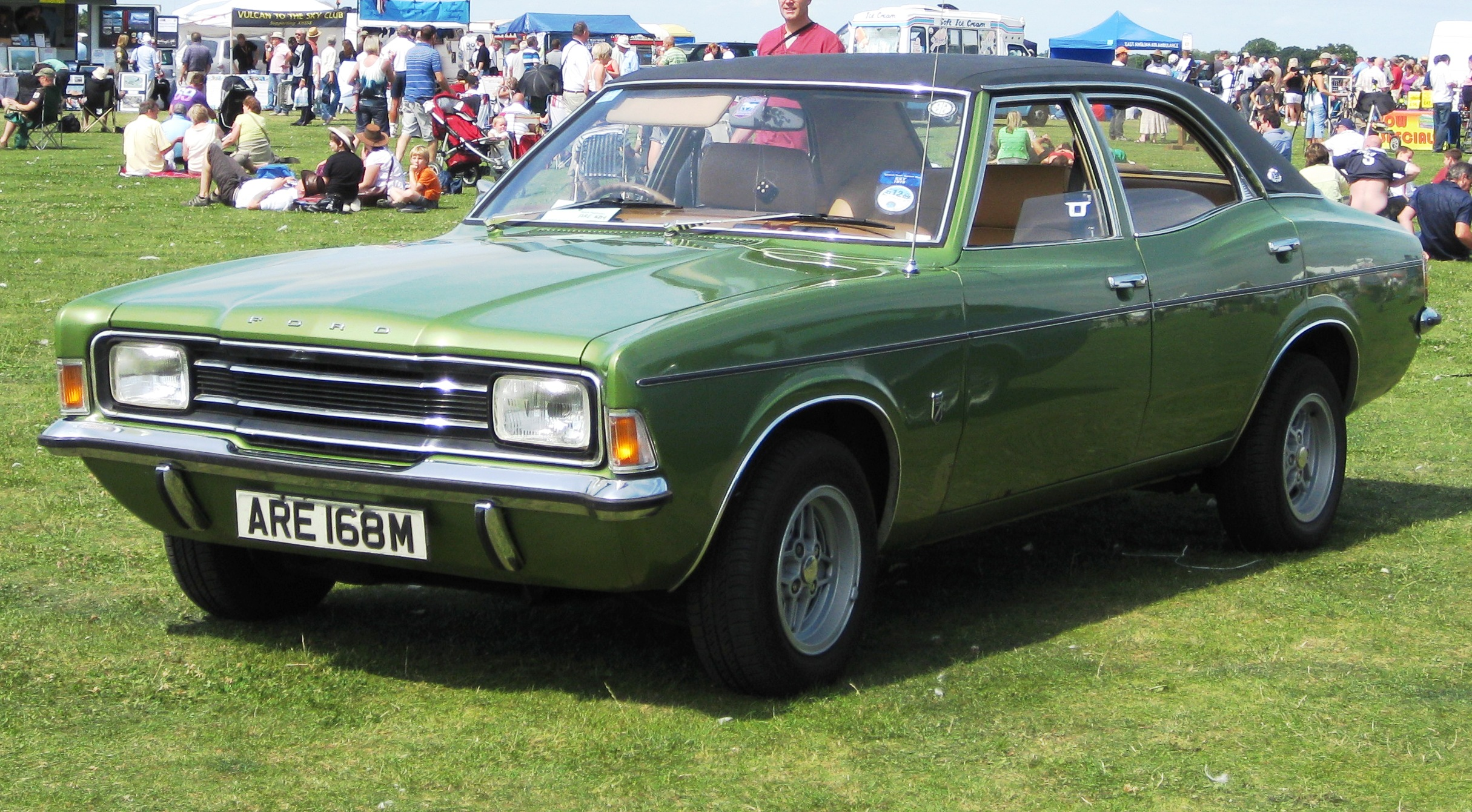 Ford Cortina Mk III